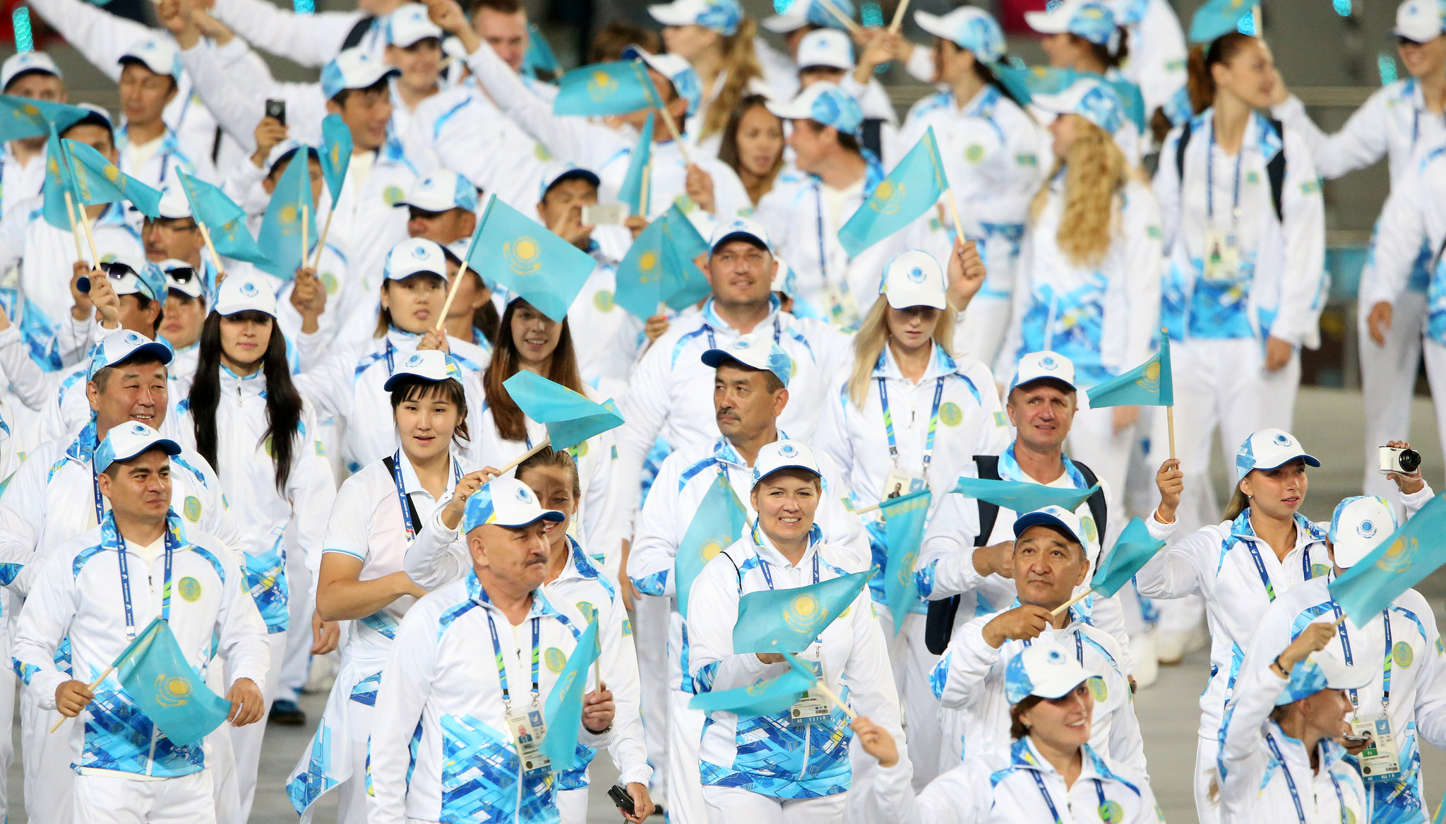 2014 Asian Games opening ceremony